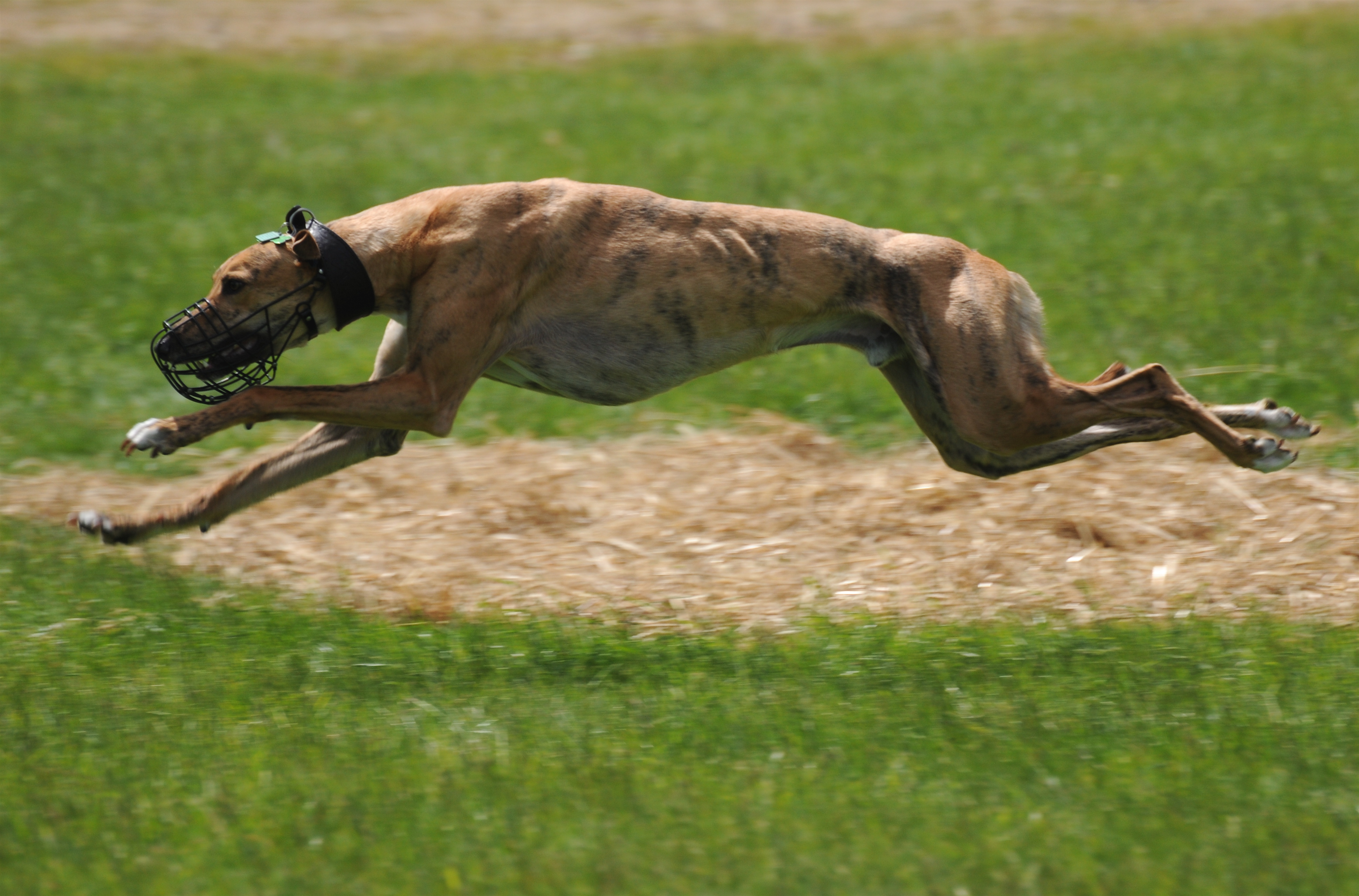 Lurcher racing